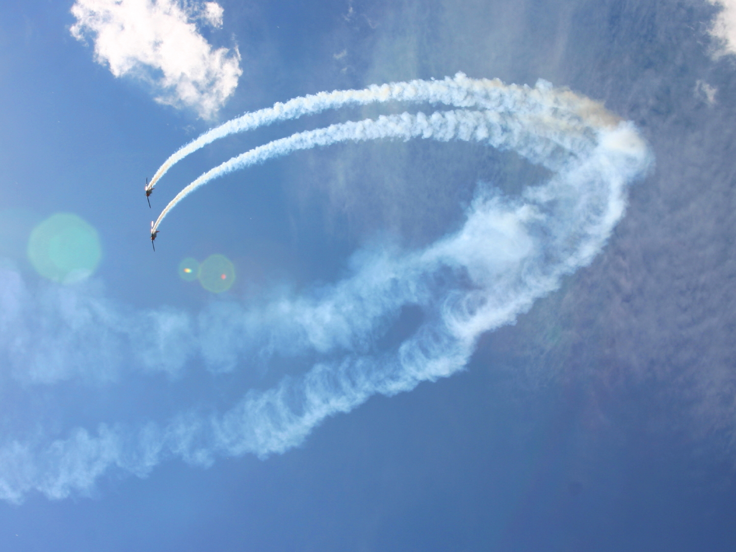 Two North American T-6, piloted by Walter and Toni Eichhorn, in an arobatic display during the airshow at Kirchheim, Upper Austria